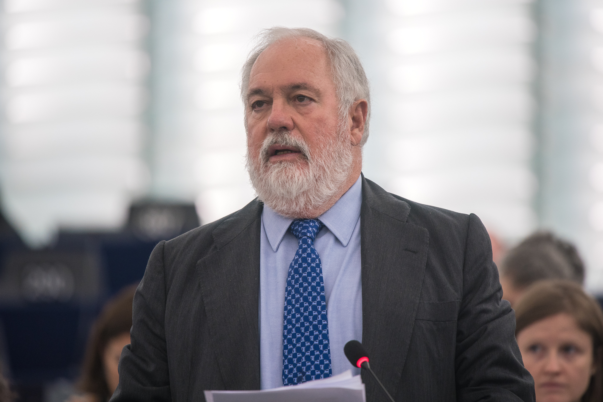 Read our Top Story about climate change here: This photo is free to use under Creative Commons license CC-BY-4.0 and must be credited: "CC-BY-4.0: © European Union 2019 – Source: EP". No model release form if applicable. For bigger HR files please contact: webcom-flickr(AT)